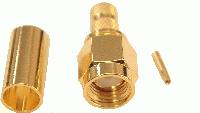 R-SMA connector